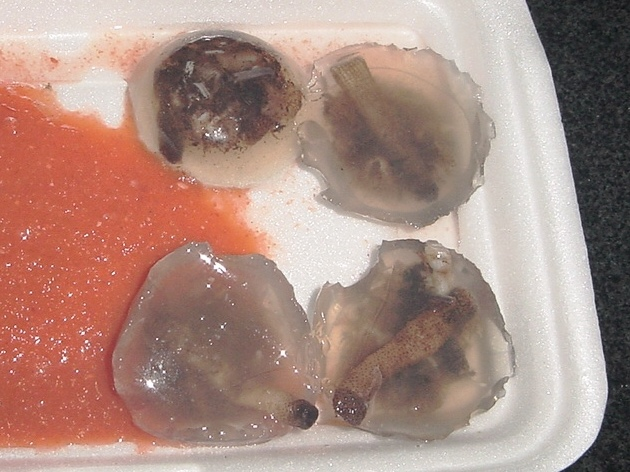 Phascolosoma jelly or tusundong in a restaurant in Xiamen